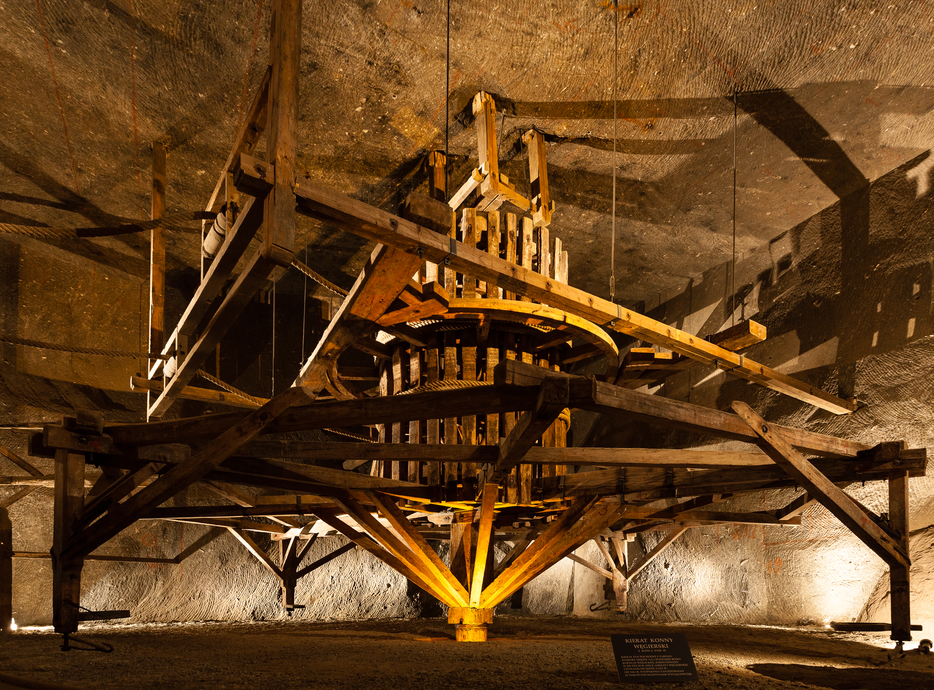 a Horse mill at the Wieliczka Salt Mine, Poland.